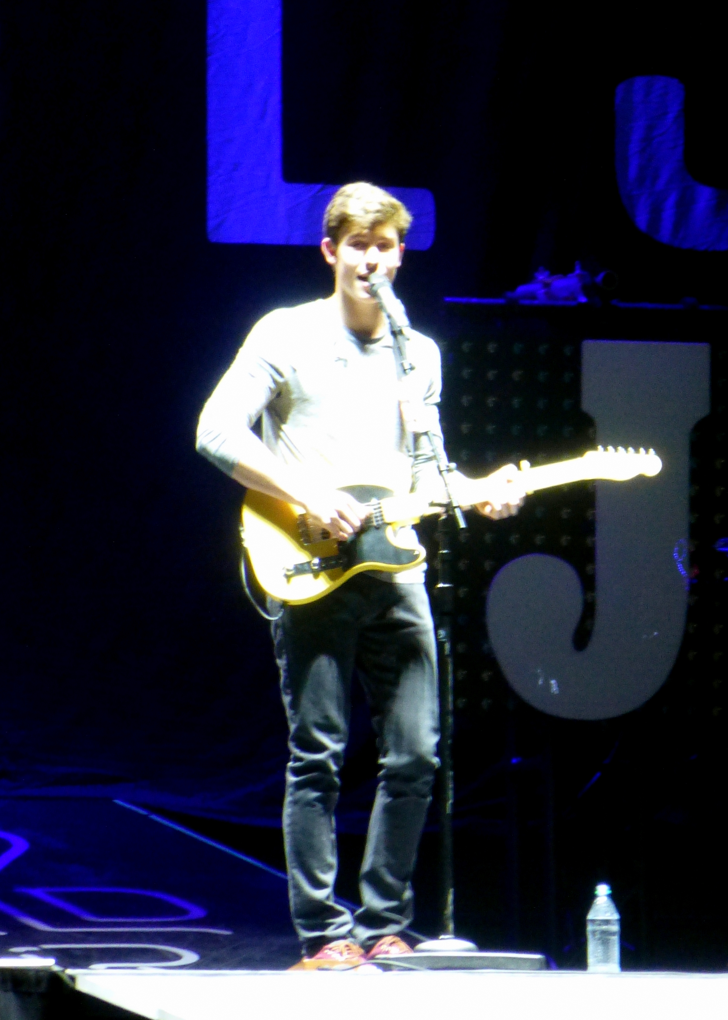 Shawn Mendes opening for Taylor Swift 1989 Tour at Ford Field in Detroit, 5/30/15